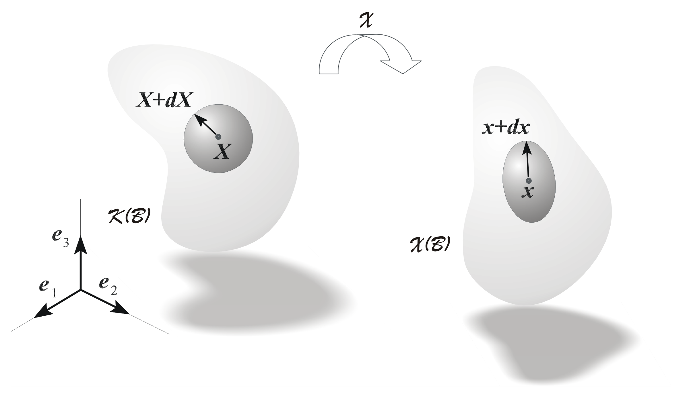 Local deformation in Cauchy continuum body